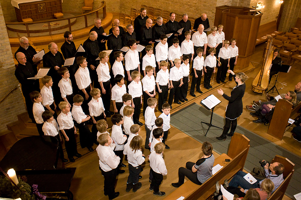 The Danish Boys' Choir in the church Helleruplund Kirke December 14, 2011